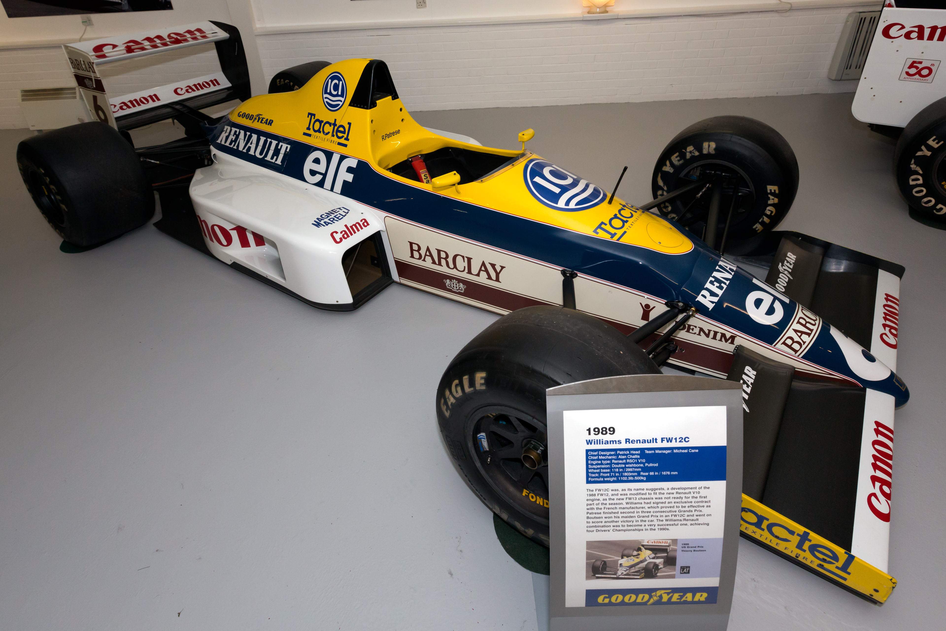 1989 Williams FW12C (#6 Riccardo Patrese)